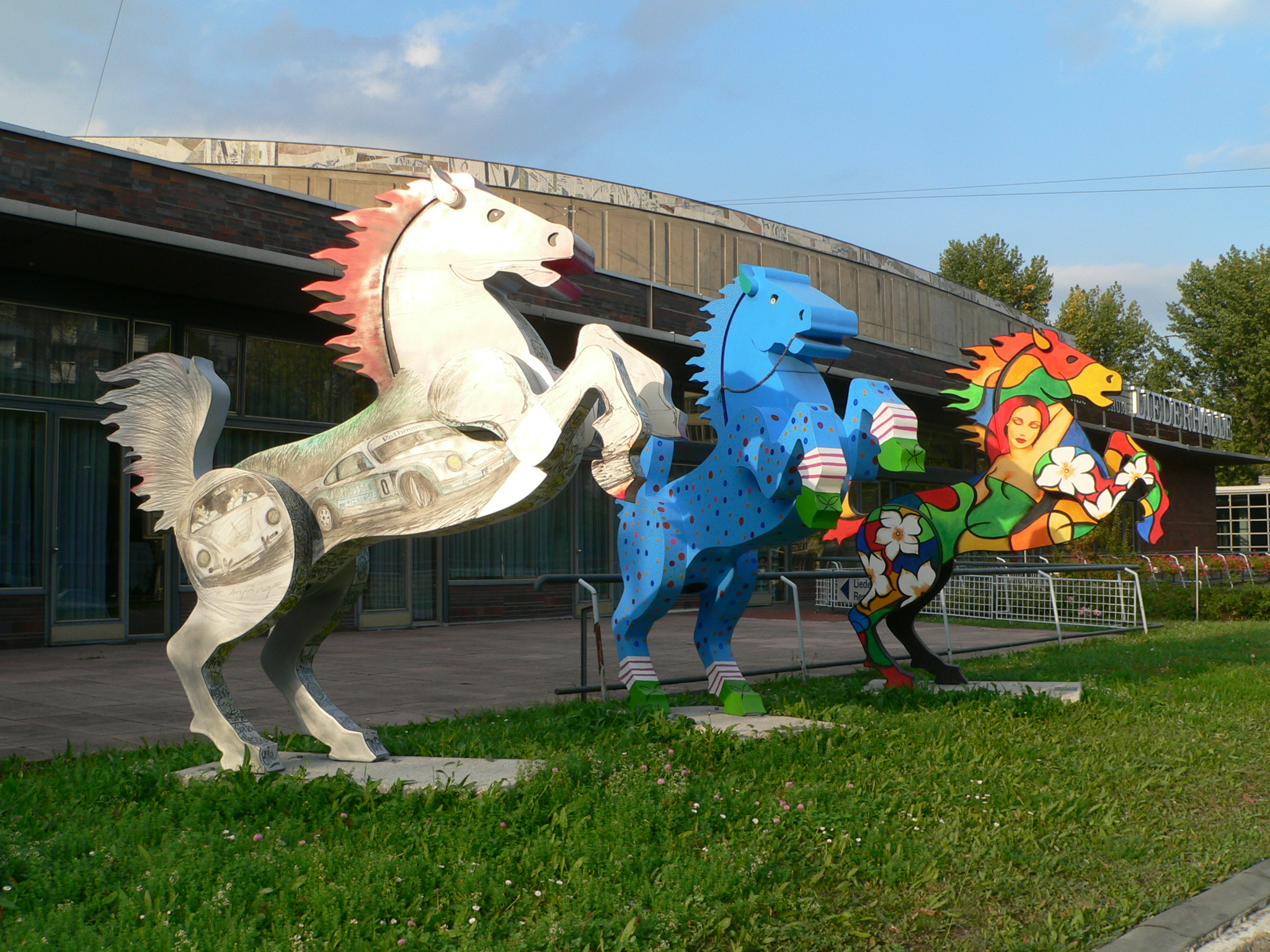 "PS-Rössle", "Kleiner Onkel", "Color for Spirit" (from left to right), Rössle-Parade 2007 Stuttgart, Germany, in front of the Liederhalle